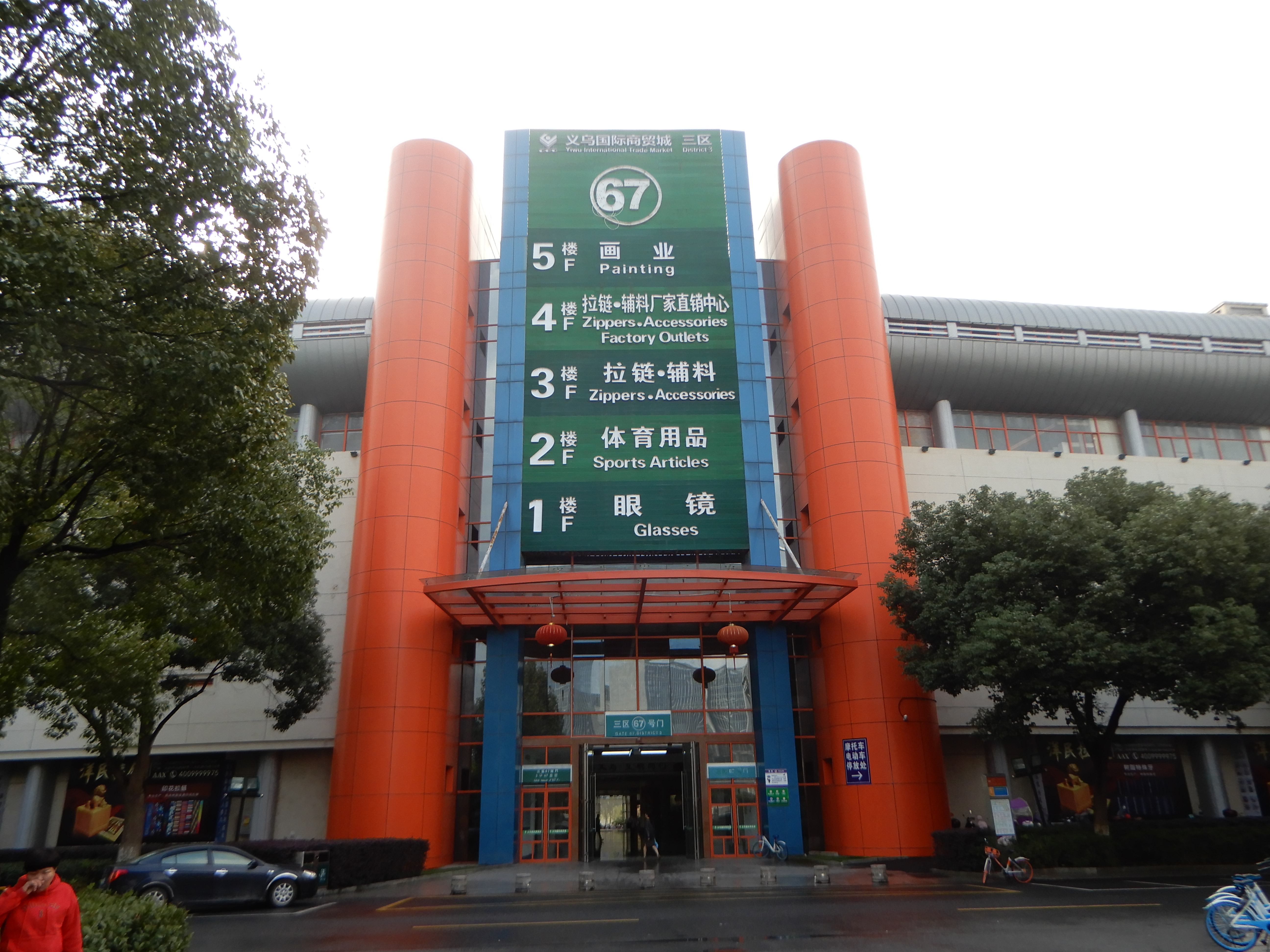 Yiwu International Trade Market - District 3, Gate 59.jpg中文（中国大陆）: 义乌国际商贸城3区59号门